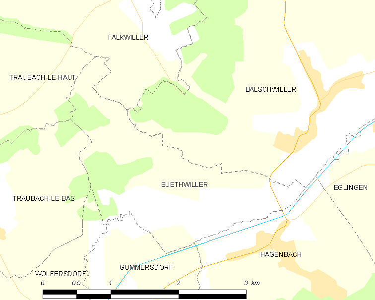 Map of French municipality